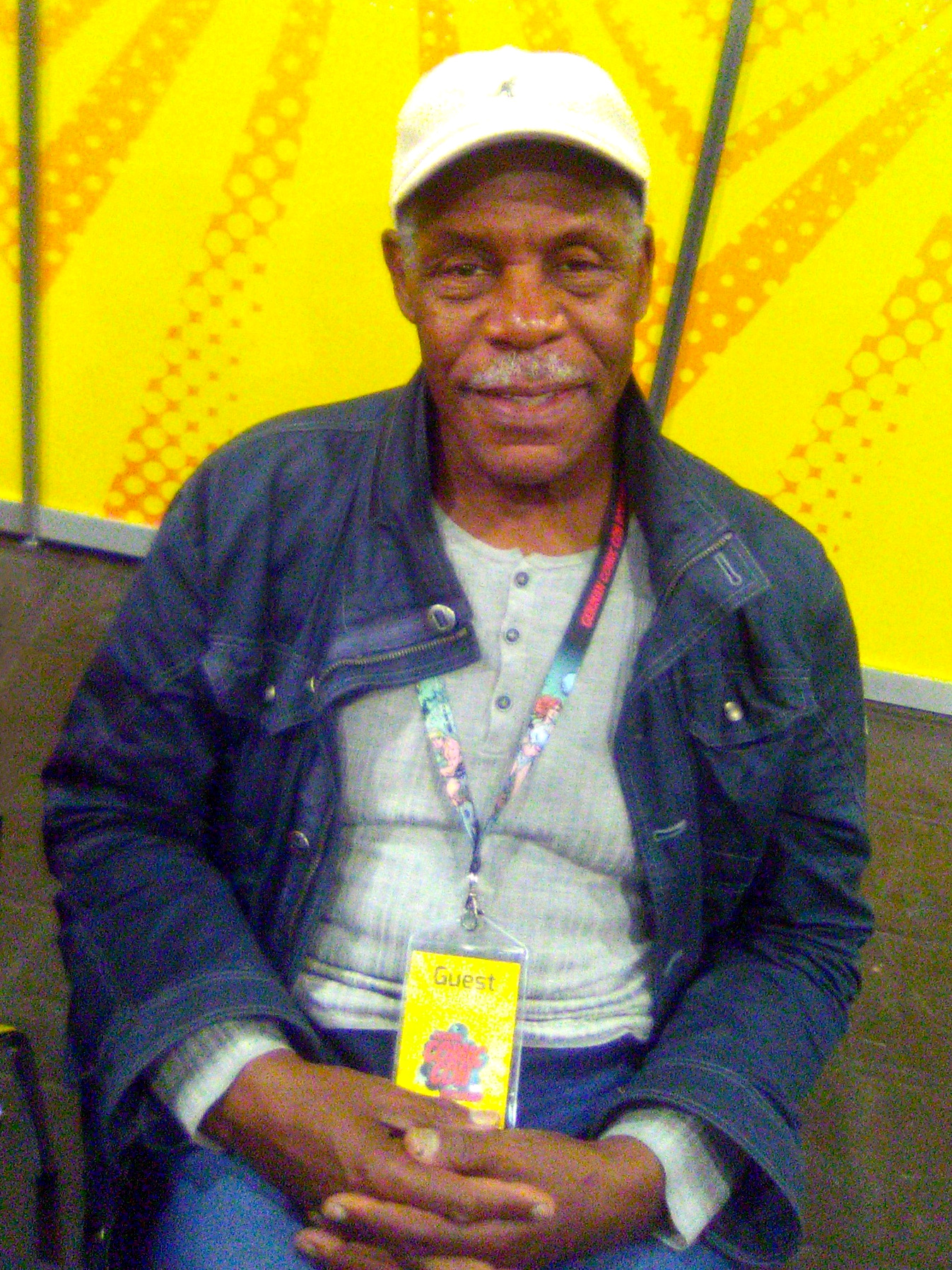 Danny Glover at the German Comic Con 2016 in Dortmund.